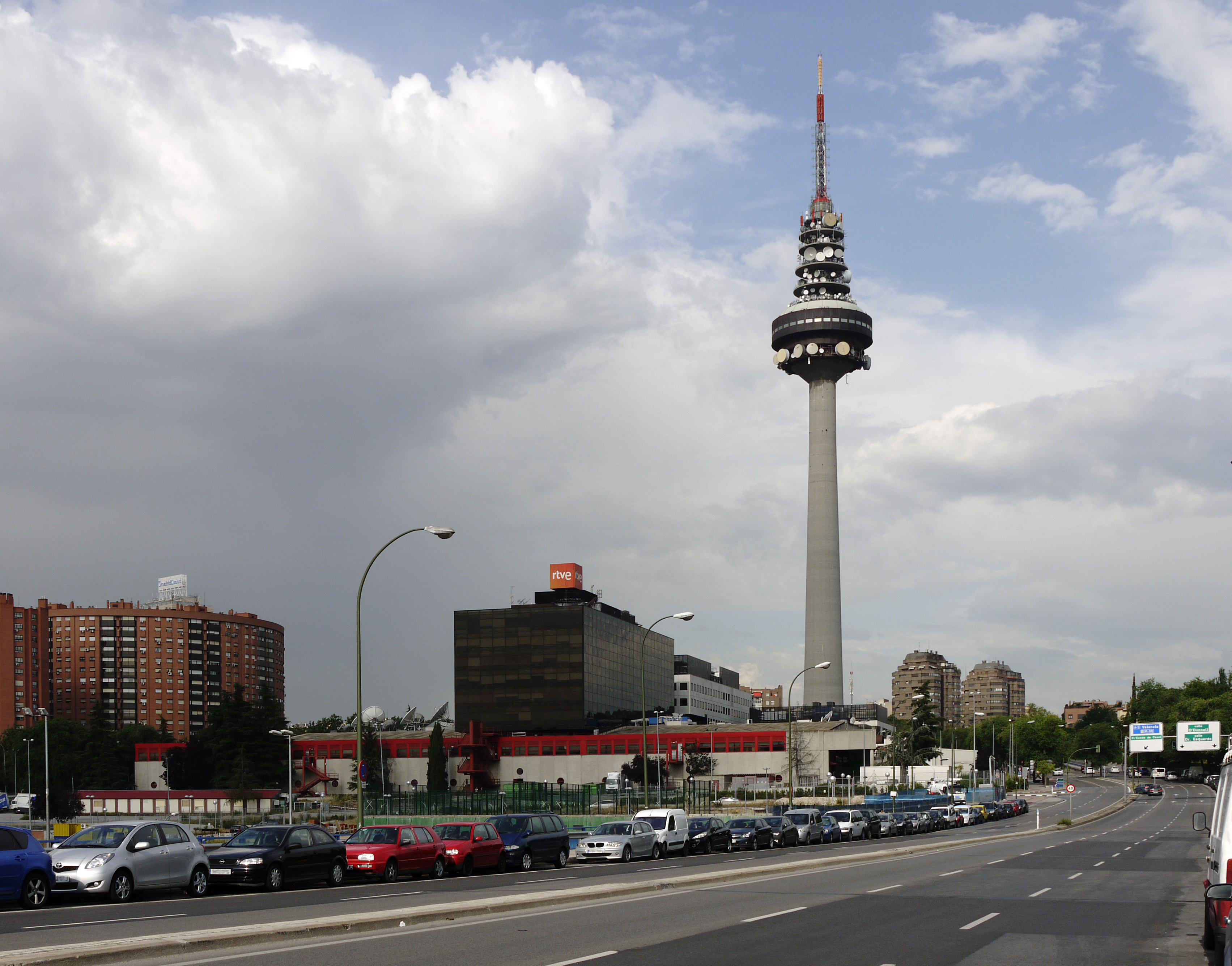 Torrespaña is a TV and radio tower in Madrid (Spain). It was projected in 1980 by architect Emilio Fernández Martínez de Velasco and engineer José Horta Casero, and built from 1981 to 1982.